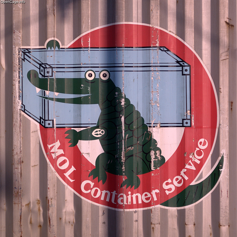 Alligator logo used for the Mitsui OSK Lines system.